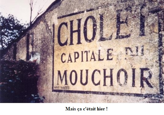 When the textile industry occupies a prominent place in Cholet at the dawn of the 20th century